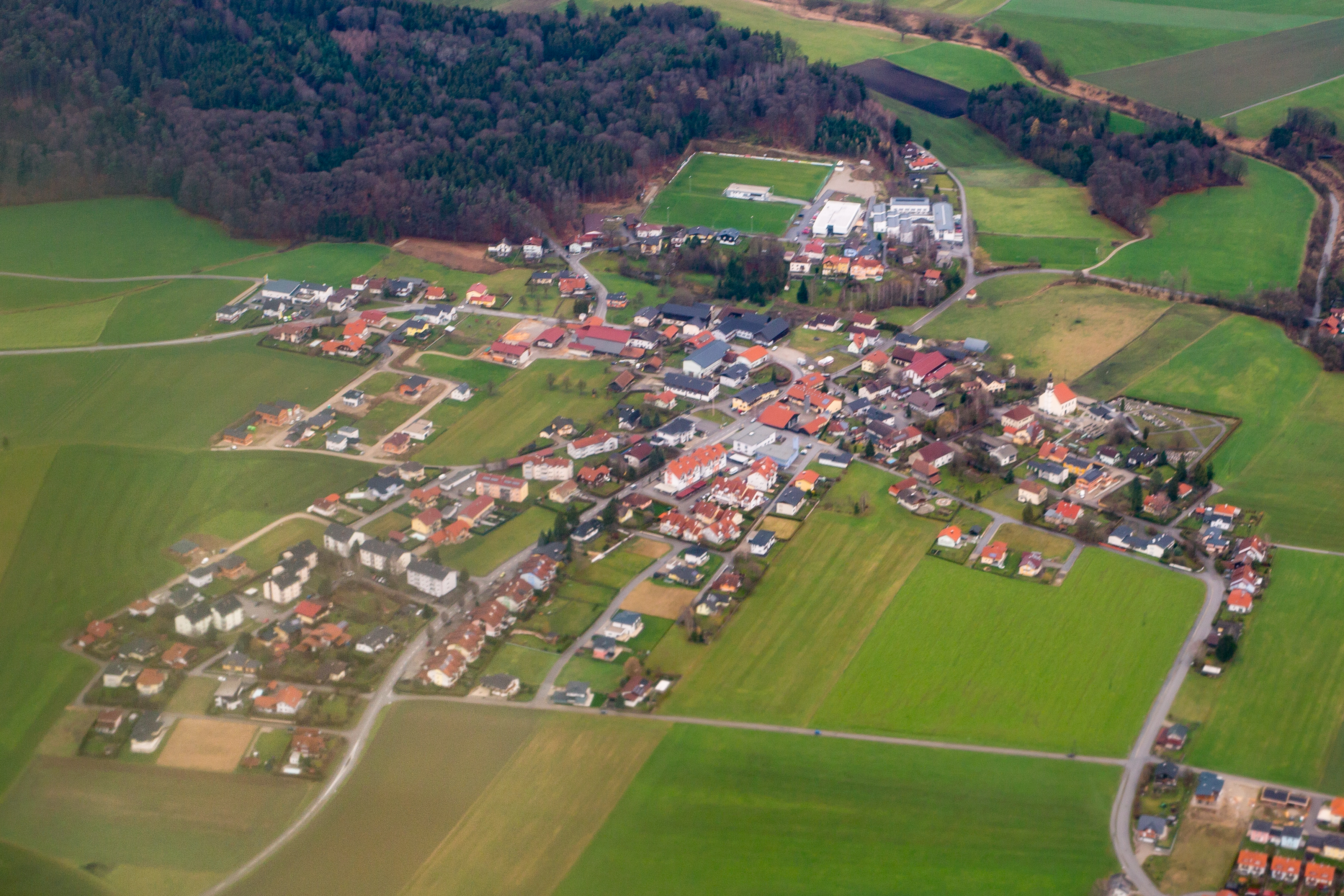 St.Pantaleon